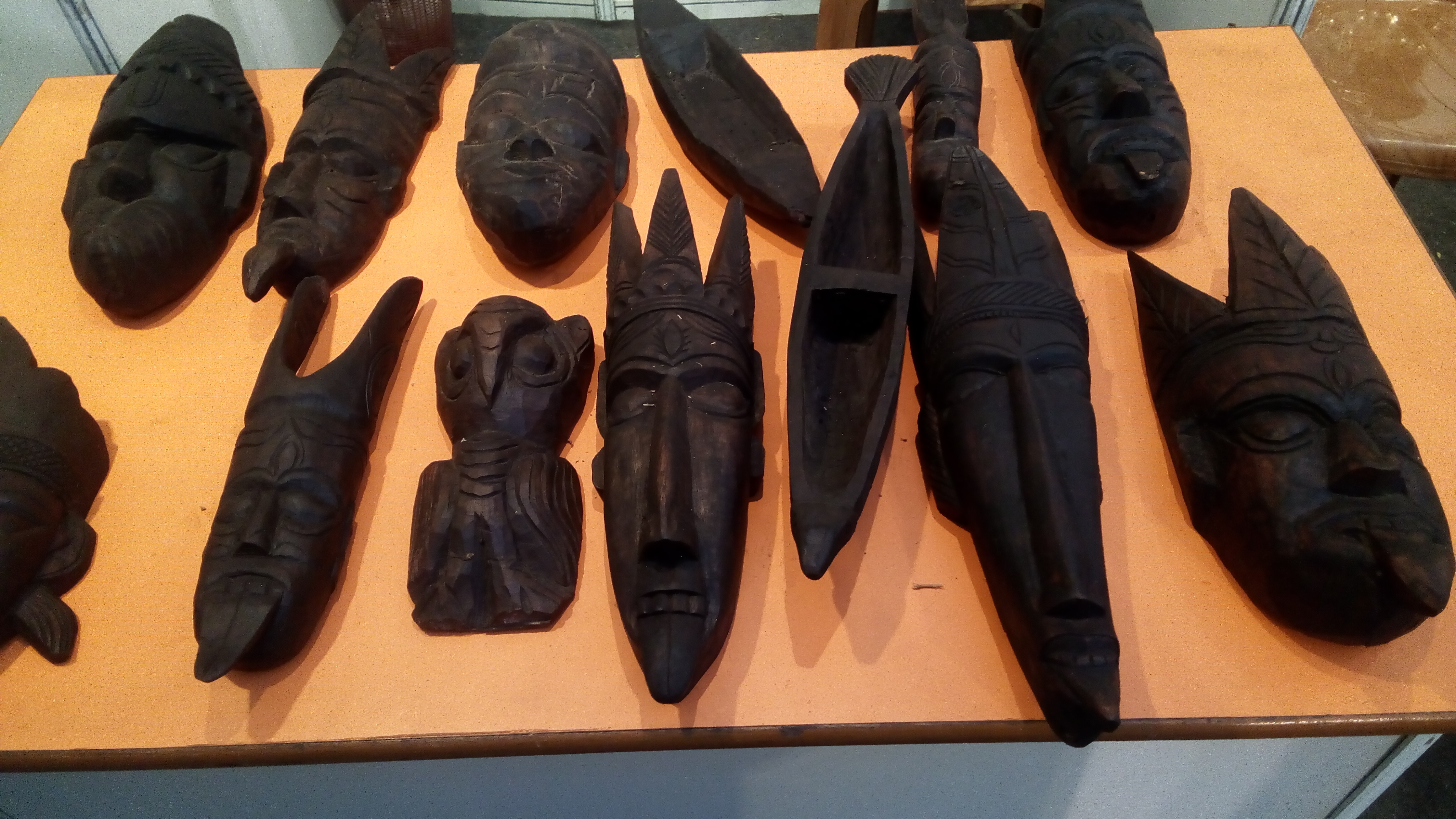 This photo has-been taken during a photo walk